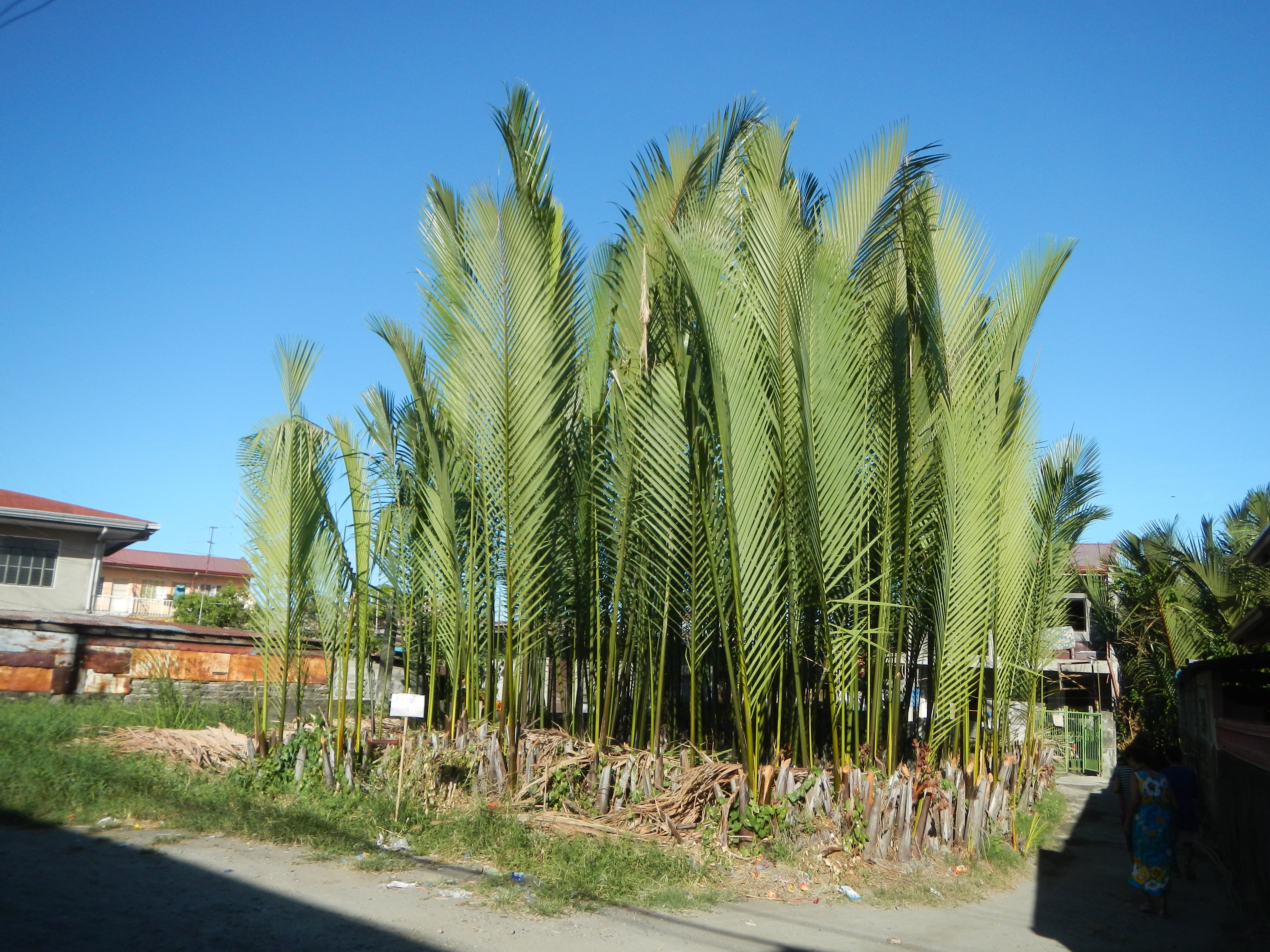 Taken upon the condition of Philippine Typhoon Nona Barangay San Jose, Paombong, Bulacan, Nipa trees in the Philippines Bamboos in the Philippines; is the largest "sasahan" in town; from Sitio III, IV and V, the landmark is the scenic San Jose Fishport in Sitio Wawa which cradles the motor boats or "bangka" fishing and passenger boats which serves as the major transportation 3 barangays near the Manila Bay, namely, Sta. Cruz, Masukol and Binakod, and is bounded by Barangays Malumot and San Roque, Paombong, Bulacan (along the Malolos City, Bulacan, Malolos City-Paombong-Hagonoy National Road connecting to and from the Diversion Road, Blas F. Ople Diversion Road (Malolos City & Paombong, Bulacan), to from Malolos Flyover (Malolos City, Bulacan) and Malolos City overpass bridge at and from MacArthur Highway or Manila North Road)MacArthur Highway (Malolos City section) or Manila North Road).